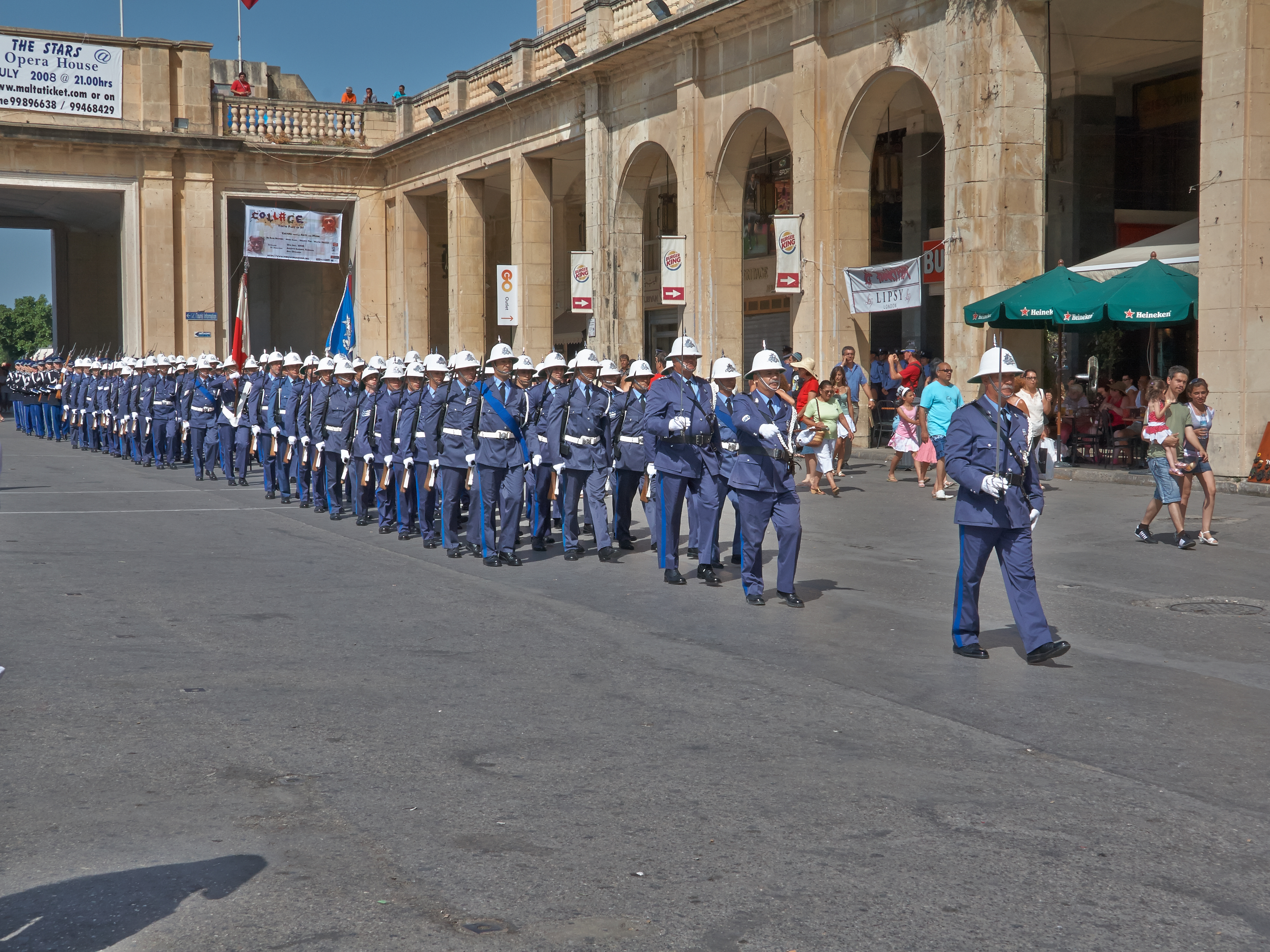 Valletta